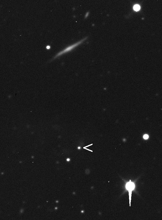 10 minute exposure of dwarf planet Makemake with a 24" telescope. Makemake is about apparent magnitude 16.9 in this image taken at 2009-11-26 11:45 UT. The galaxy IC 3587 is visible above Makemake. The blooming star to the lower right is magnitude 10.8. Makemake rose at 08:15 and the sun would rise at 14:00.